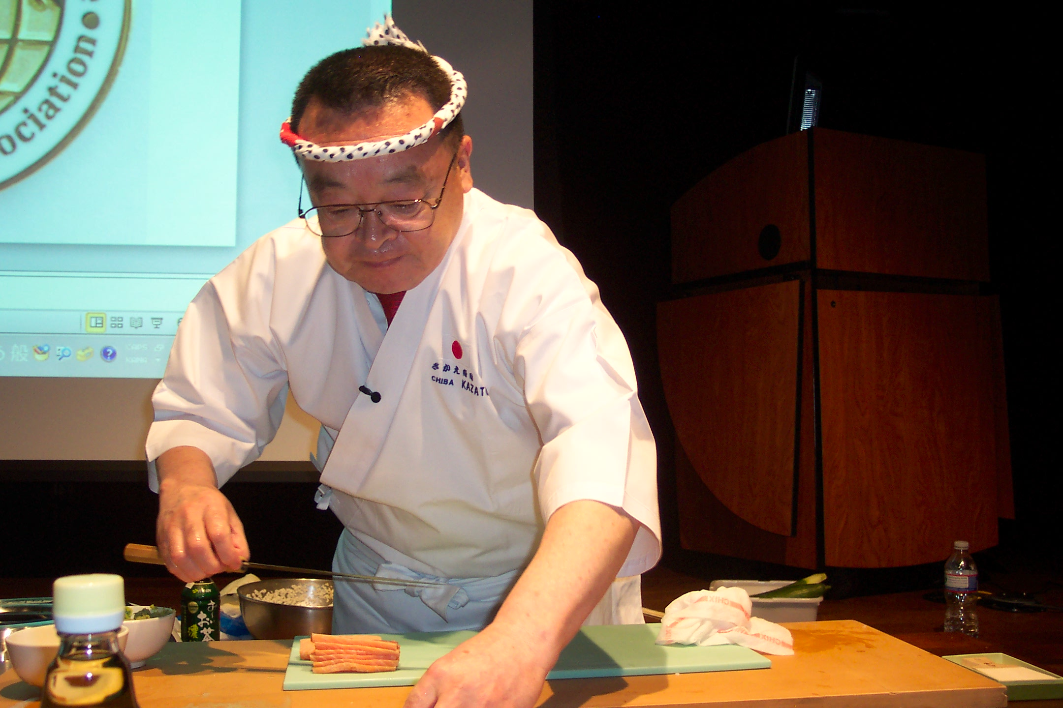 Sushi 101: A Lecture by Global Sushi Ambassador Masayoshi Kazato on November 13, 2012 at JICC, Embassy of Japan